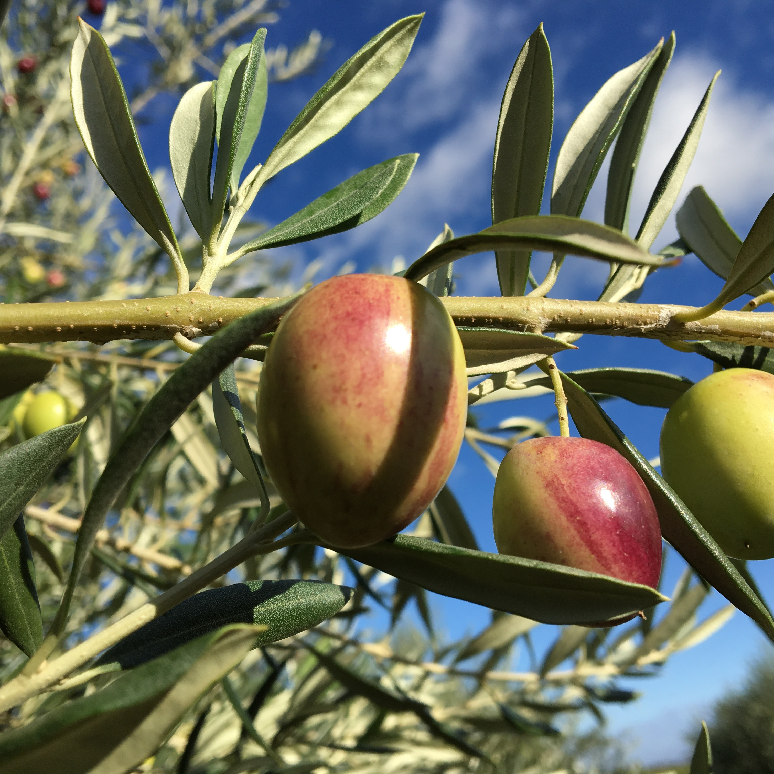 Ripening Ascolano olives in Corning, California.